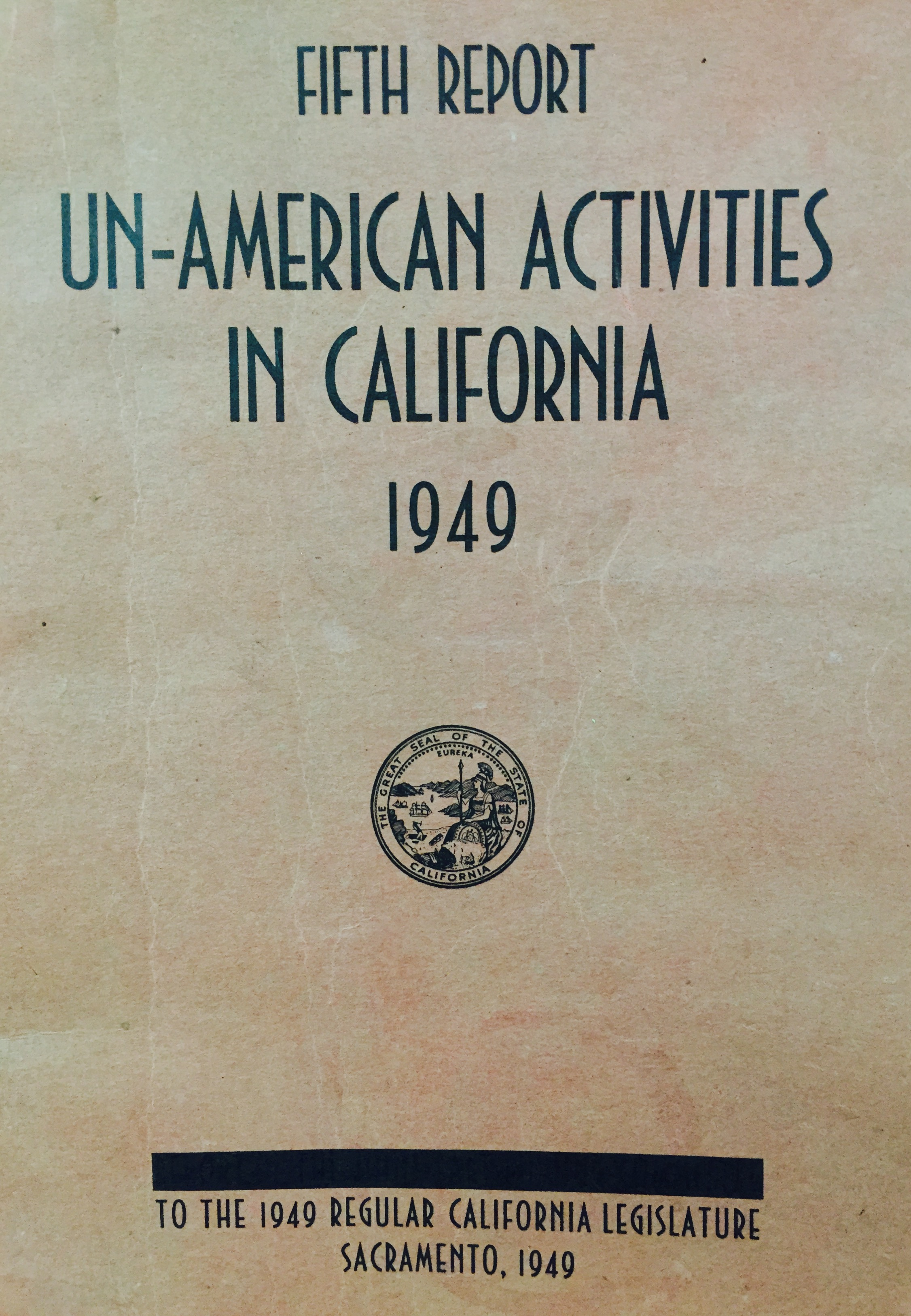 Front cover of the 1949 report of the California Senate Factfinding Subcommittee on Un-American Activities.